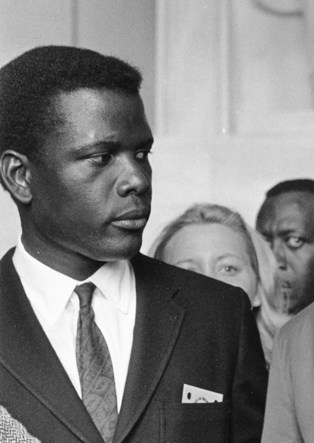 Sidney Poitier's image, cropped from Civil Rights March on Washington, D.C., 08/28/1963, an image in Public Domain (see credits below, of the original). The original is uploaded here at